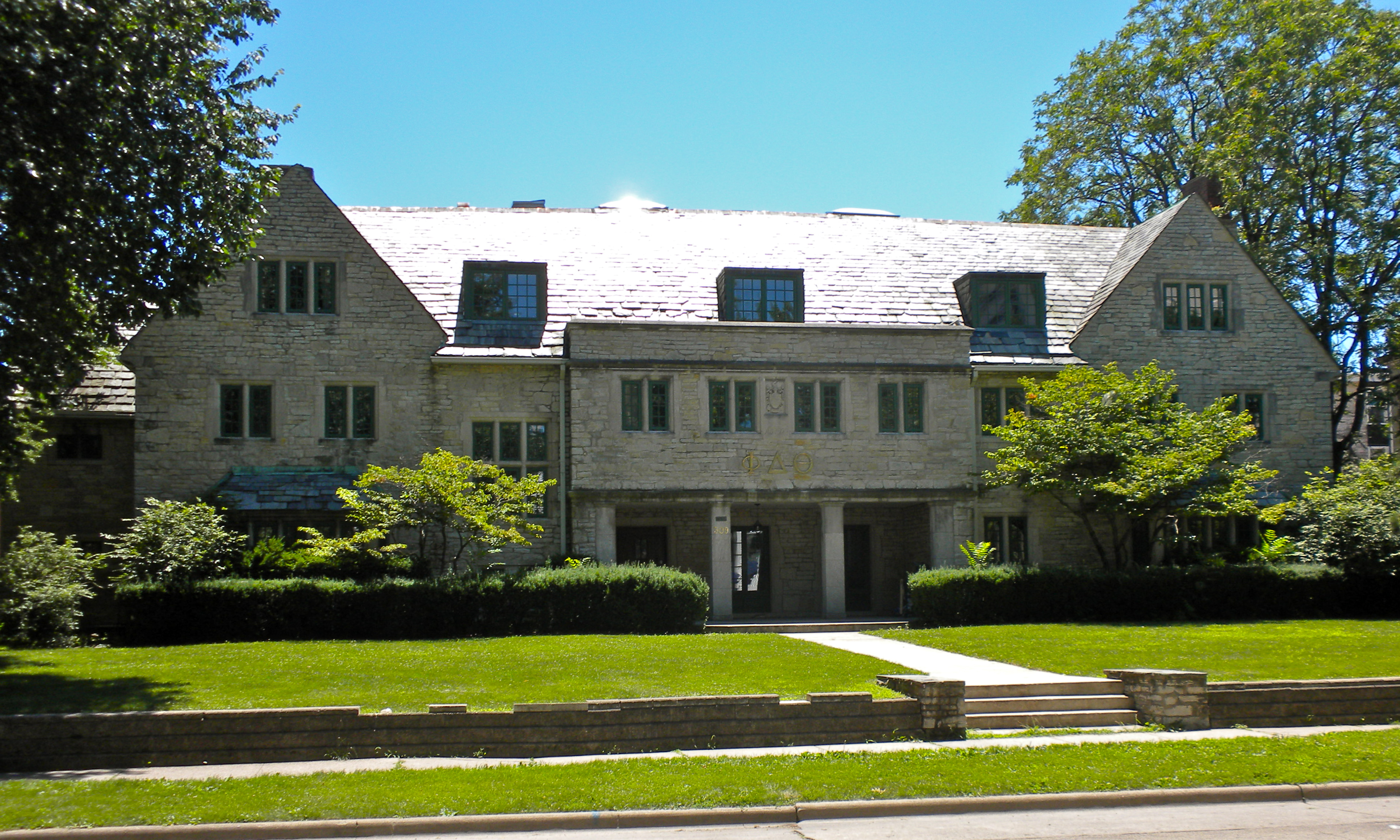 Phi Delta Theta Fraternity House at University of Illinois, on NRHP since February 25, 2004. At 309 E. Chalmers St. Champaign, Illinois